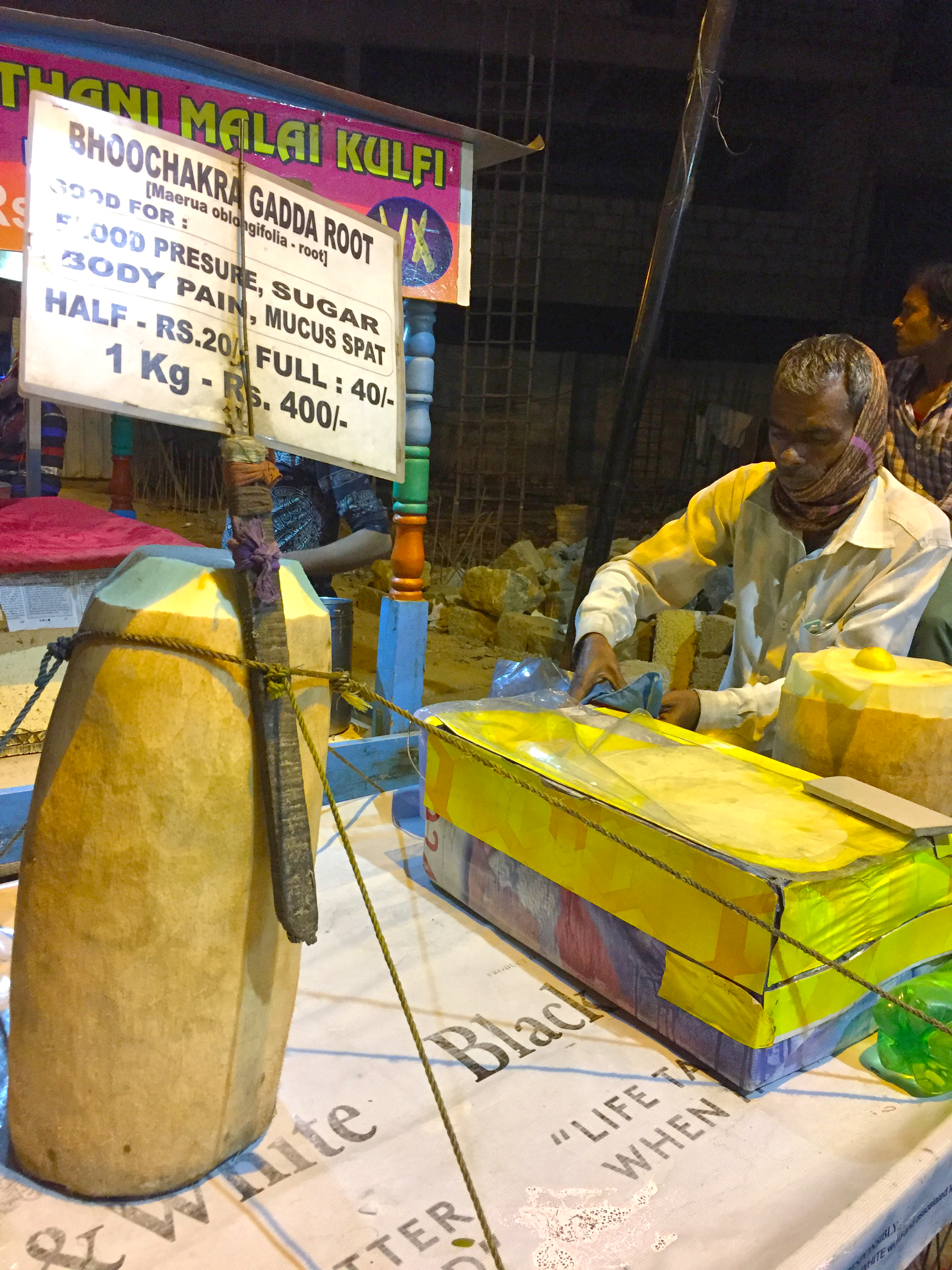 Maerua oblongifolia (Kannada: ಭೂಚಕ್ರ ಗದ್ದೆ, Bhoochakra gadde) being sold at the the Thindi Beedi (food street), V.V. Puram, Bengaluru, Karnataka.